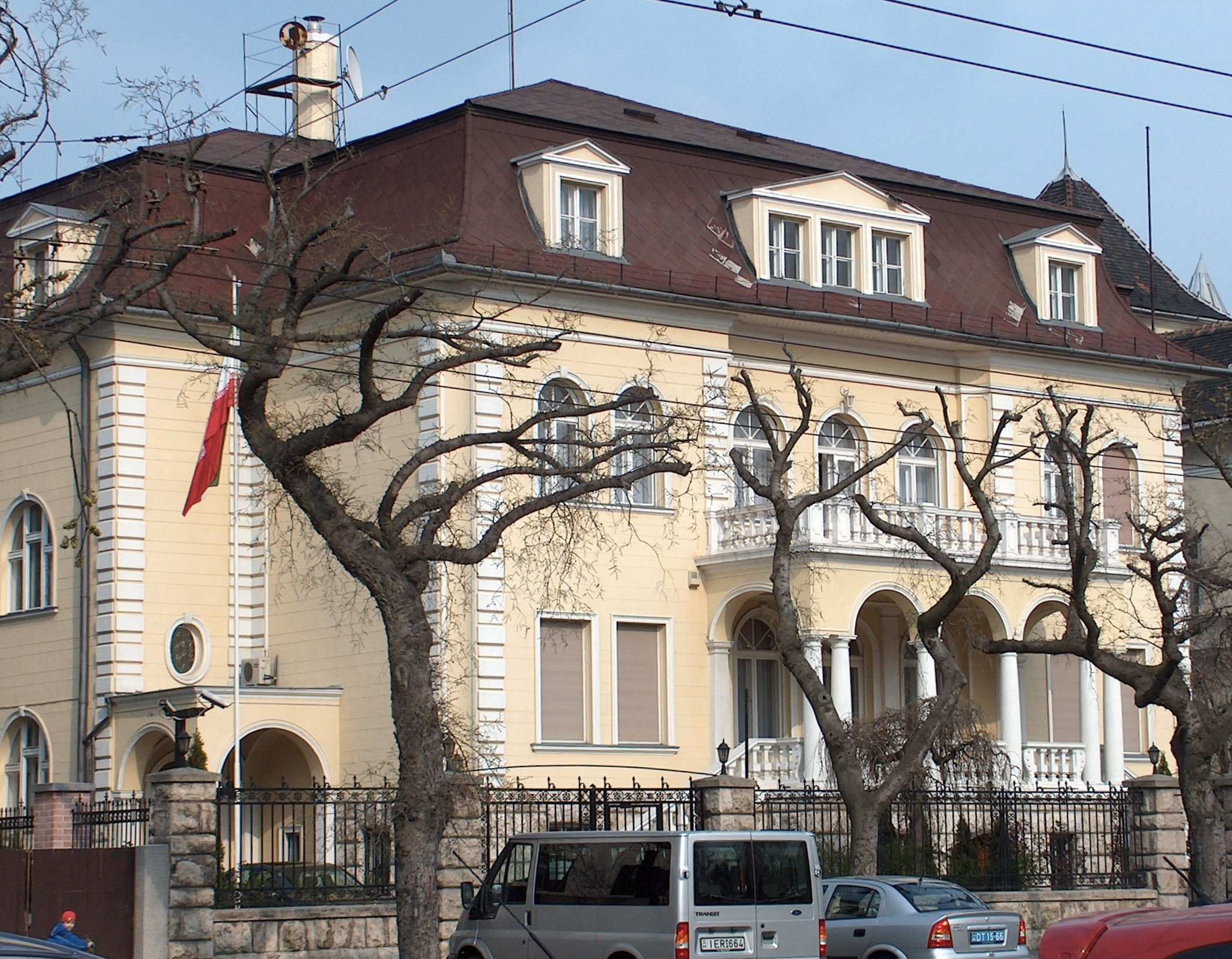 Embassy of Iran - Budapest